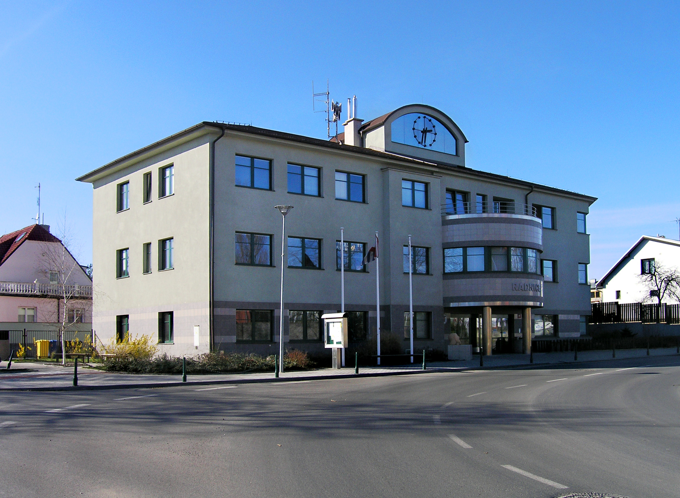 Town hall at Semilská street in Kbely, Prague